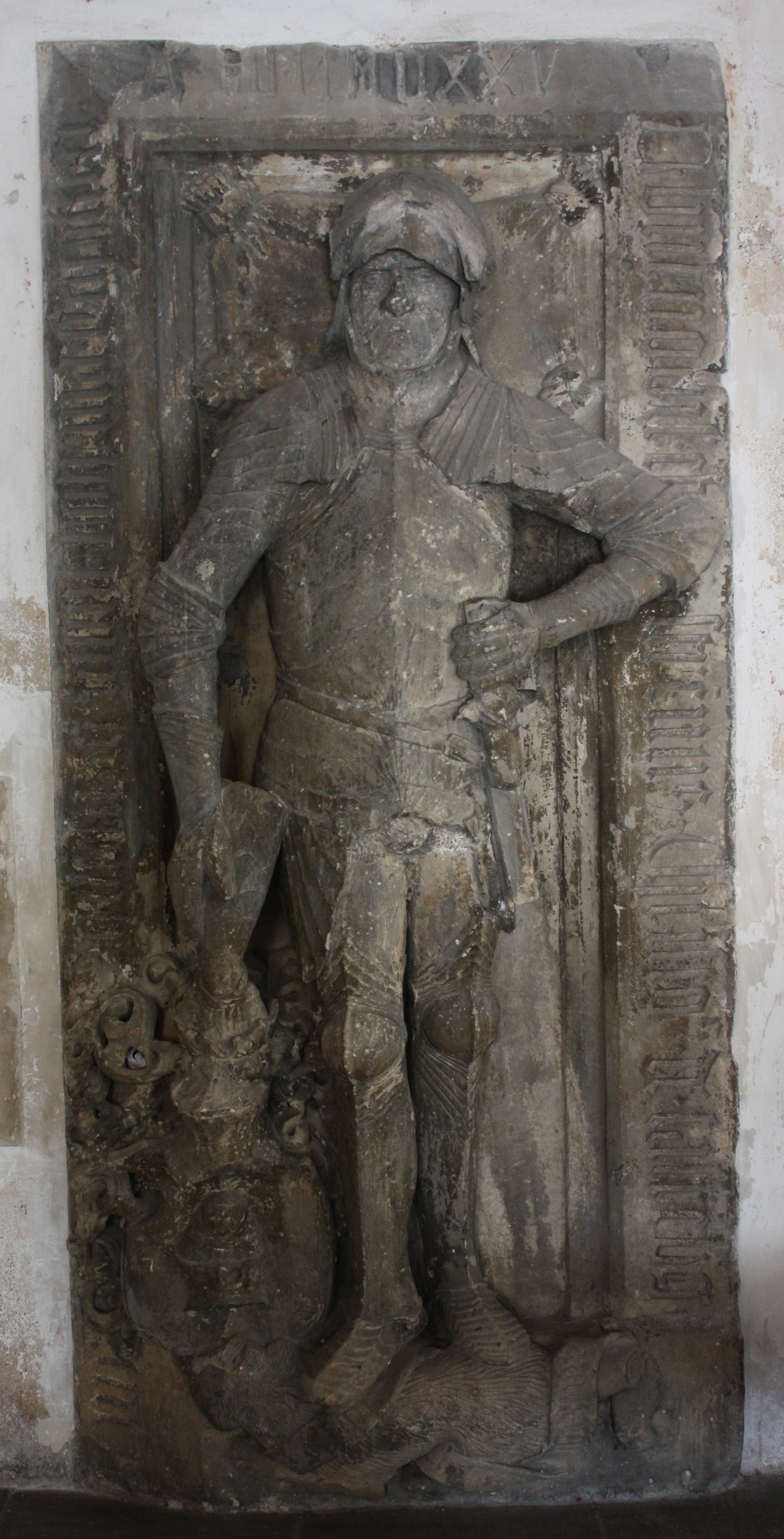 This photo of Lower Silesian Voivodeship was taken during Wikiexpedition 2013 set up by Wikimedia Polska Association. You can see all photographs in category Wikiekspedycja 2013. English | Polski | +/−